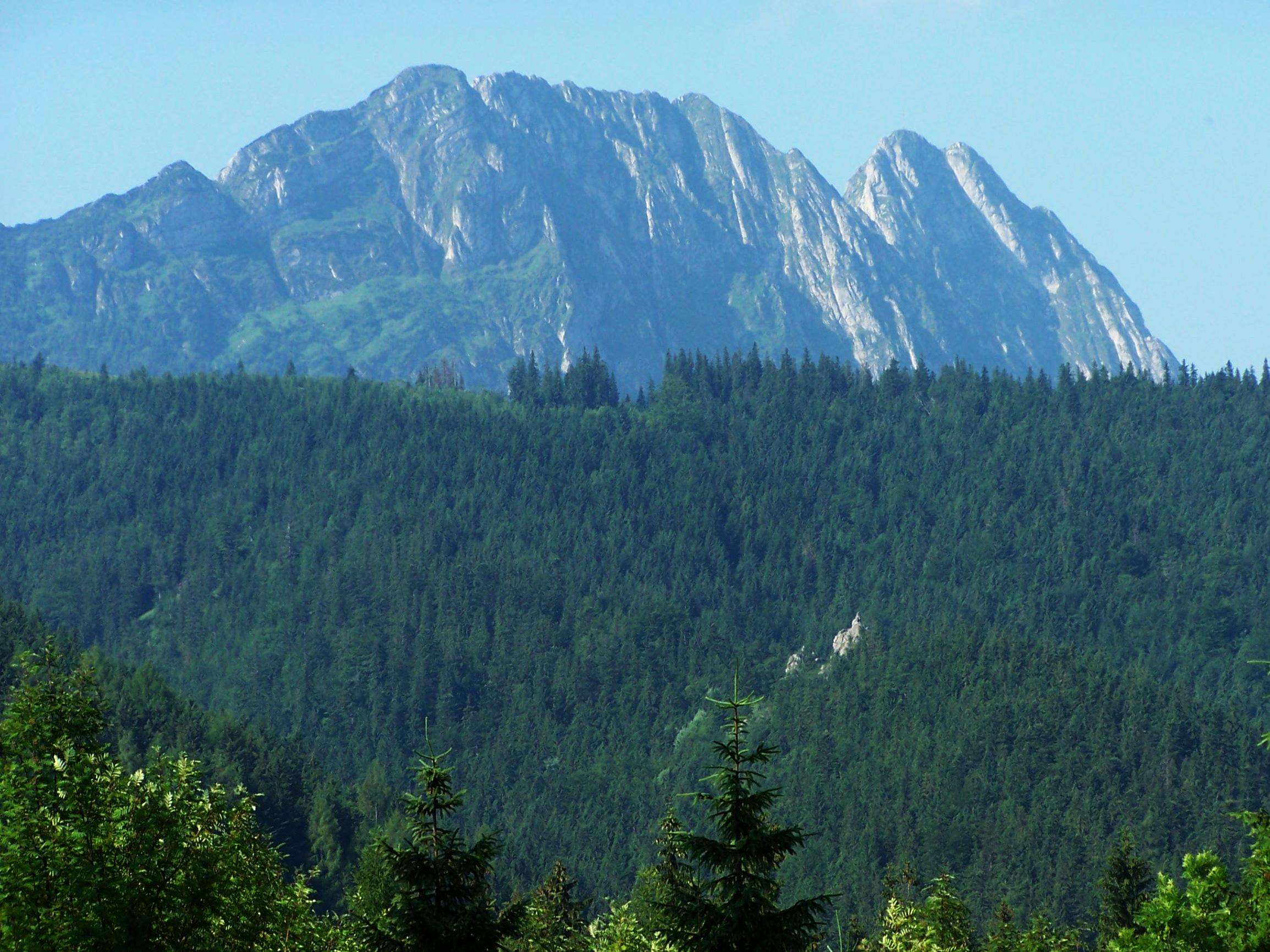 Giewont (Tatra Mountains)